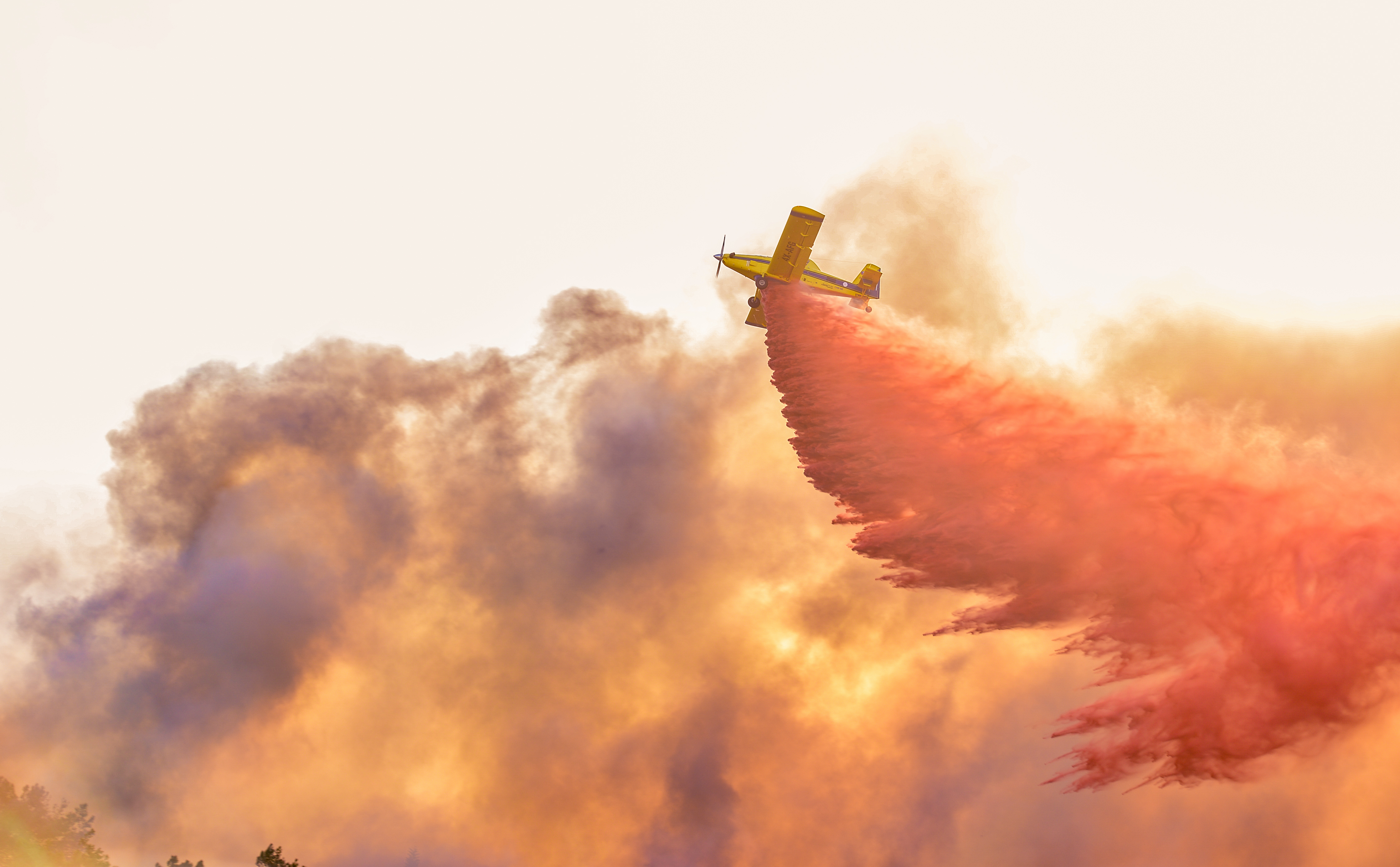 4X-AFG aircraft of the Israeli Squadron 249 dropping fire retardant fighting against the fires in Haifa